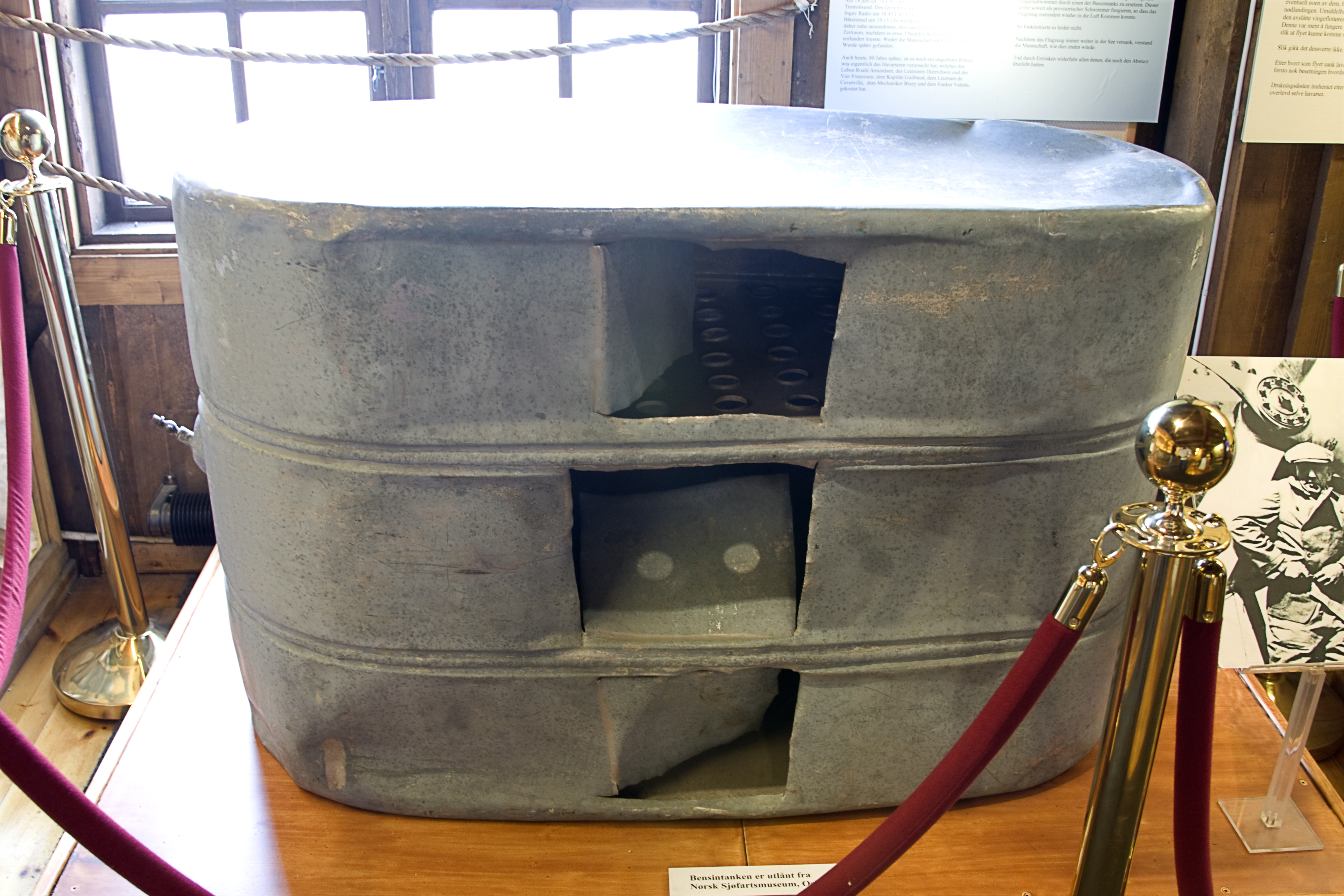 Recovered fuel tank from the Latham 47 flight that was lost in 1928 along with Roald Amundsen. Currently in the Polarmuseet in Tromso, Norway